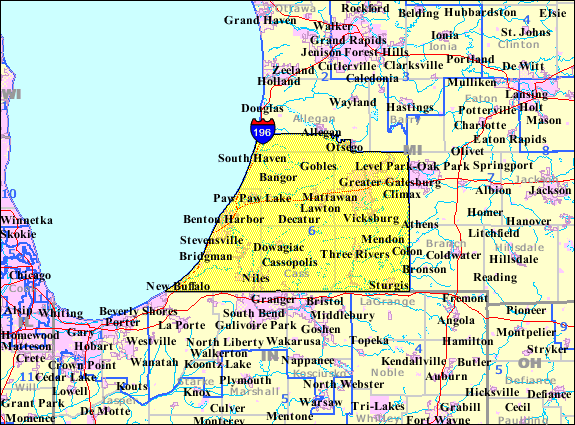 Map of Michigan's 6th congressional district for the en:106th United States Congress, illustrating boundaries prior to redistricting in 2002.